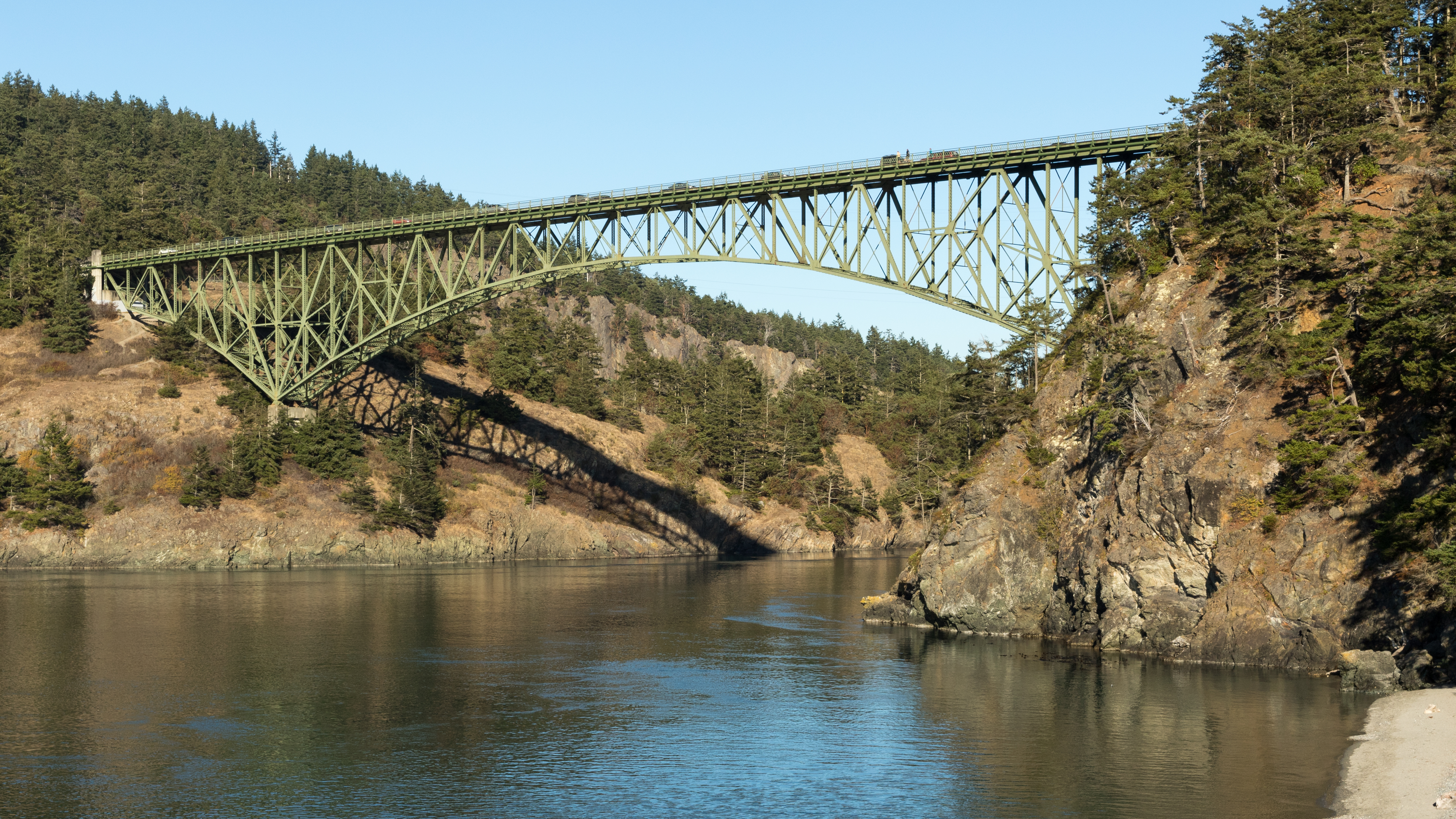 Deception Pass Bridge, as seen from Gun Point, Deception Pass State Park, Whidbey Island, in 2017